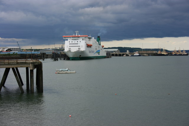 Rosslare ferry at Pembroke Dock The ferry to Rosslare in Eire, the Isle of Inishmore, moored at the roro berth in Pembroke Dock. Taken from the slipway at Hobbs Point.